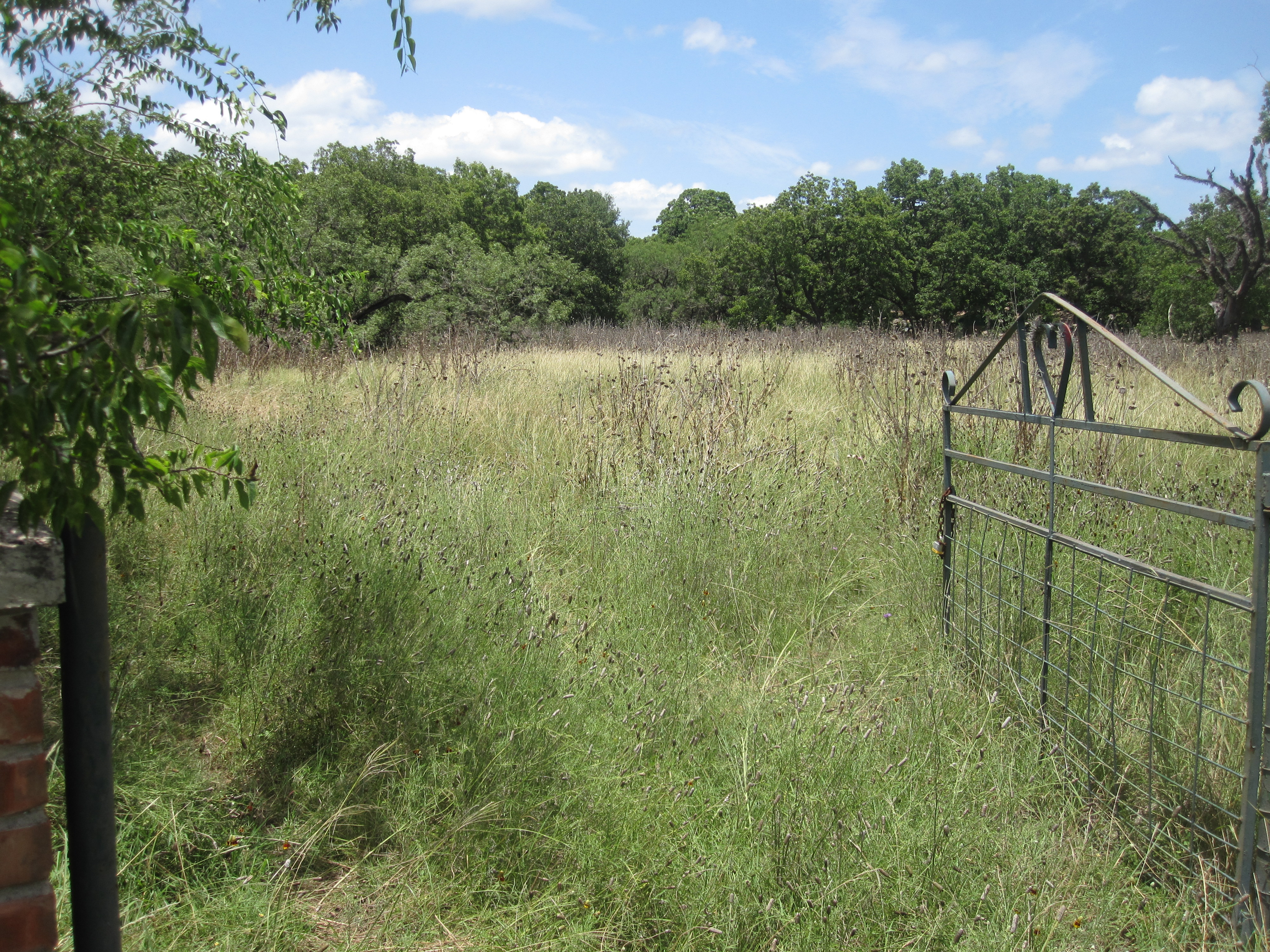 I took photo with Canon camera in Leakey, TX.